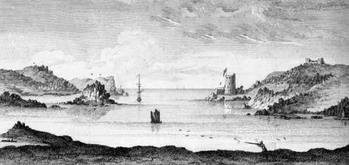 New Grimsby Harbour, 1756. Cleaned up by Hchc2009.